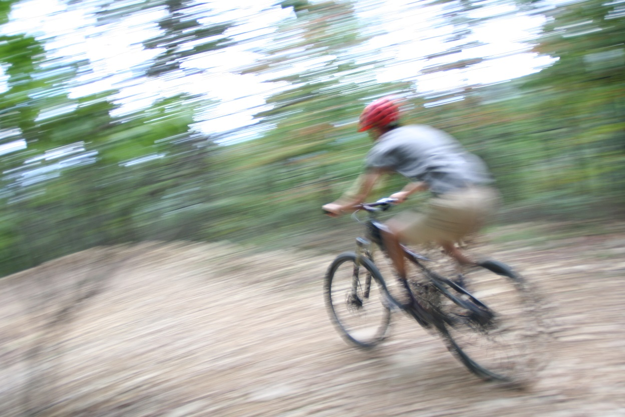 A mountain bike rider on the "OG trail" in Carvins Cove, Virginia (near Roanoke, Virginia).